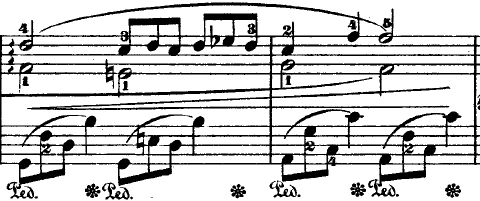 Part of second section from Nocturne Op 55, No 1